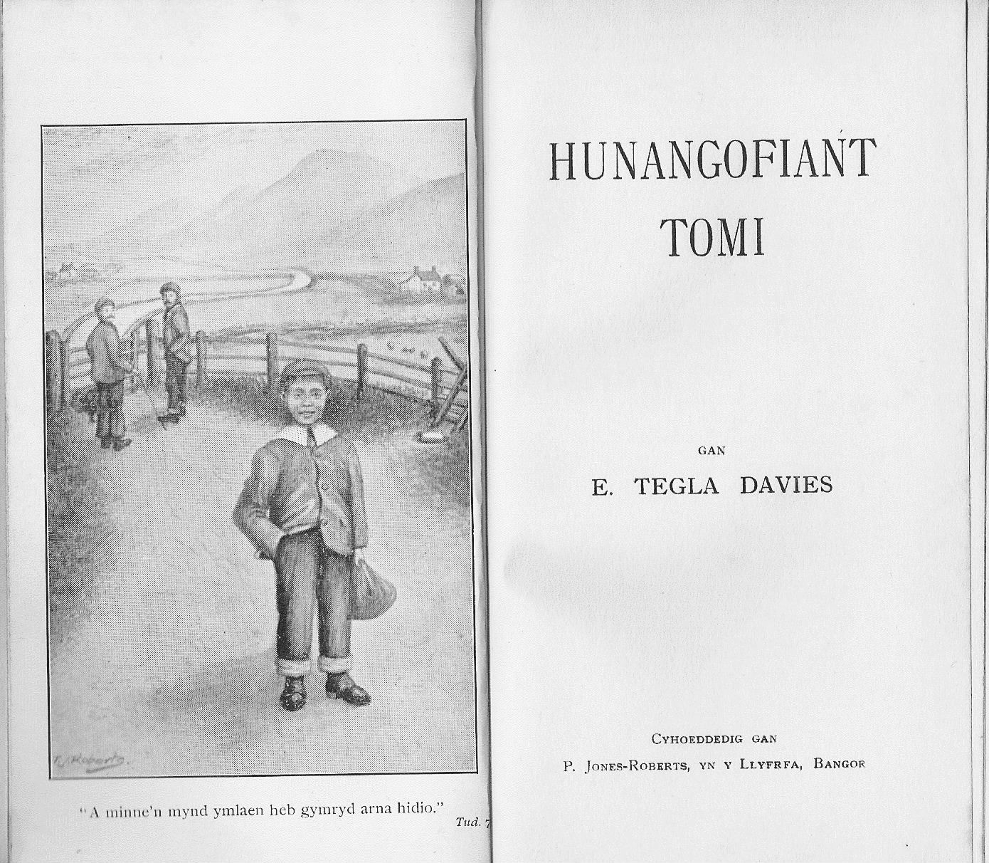 Title page and frontispiece of the Welsh-language book Hunangofiant Tomi, a story for older children by E. Tegla Davies (P. Jones-Roberts, Y Llyfrfa, Bangor, n.d.=1912).